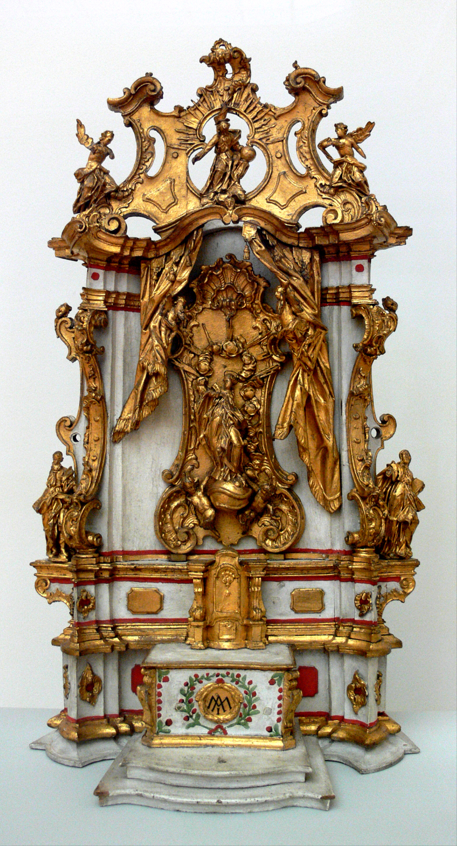 Konrad Hegenauer: Model (bozzetto) of an altar with Mary Immaculate and God the Father, c. 1760, limewood with original paint and gilding, model for the main altarpiece of the pilgrims' church Maria Schnee (Our Lady of the Snow) in Lehenbühl-Lega (Lower Allgäu region, Southern Germany), 60 x 32 cm. Skulpturensammlung (Inv. AE483, acquired in 1921), Bode-Museum Berlin.